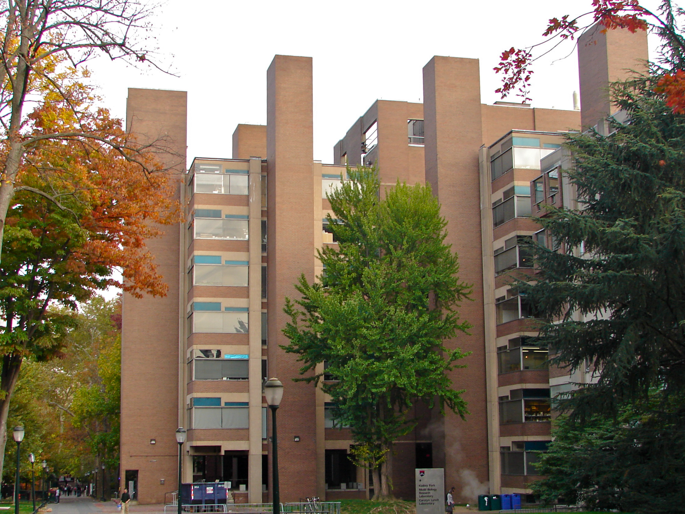 Richards and Goddard Buildings a National Historic Landmark since January 16, 2009. At 3700–3710 Hamilton Walk, University City, Philadelphia, Pennsylvania. On the University of Pennsylvania campus; Louis Kahn, architect (1957–61).